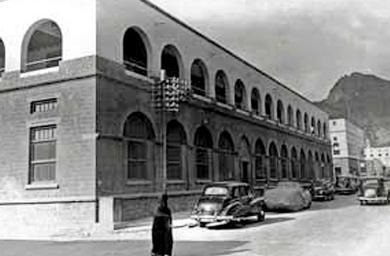 Headquarters of A. Besse & Co. (Aden) Ltd. on Aidrus Road, Crater, Aden. Built in 1914, it remained the center of operations of French-born Antonin Besse's trading empire until his death in 1951. Photograph from the 1940s or early 1950s.